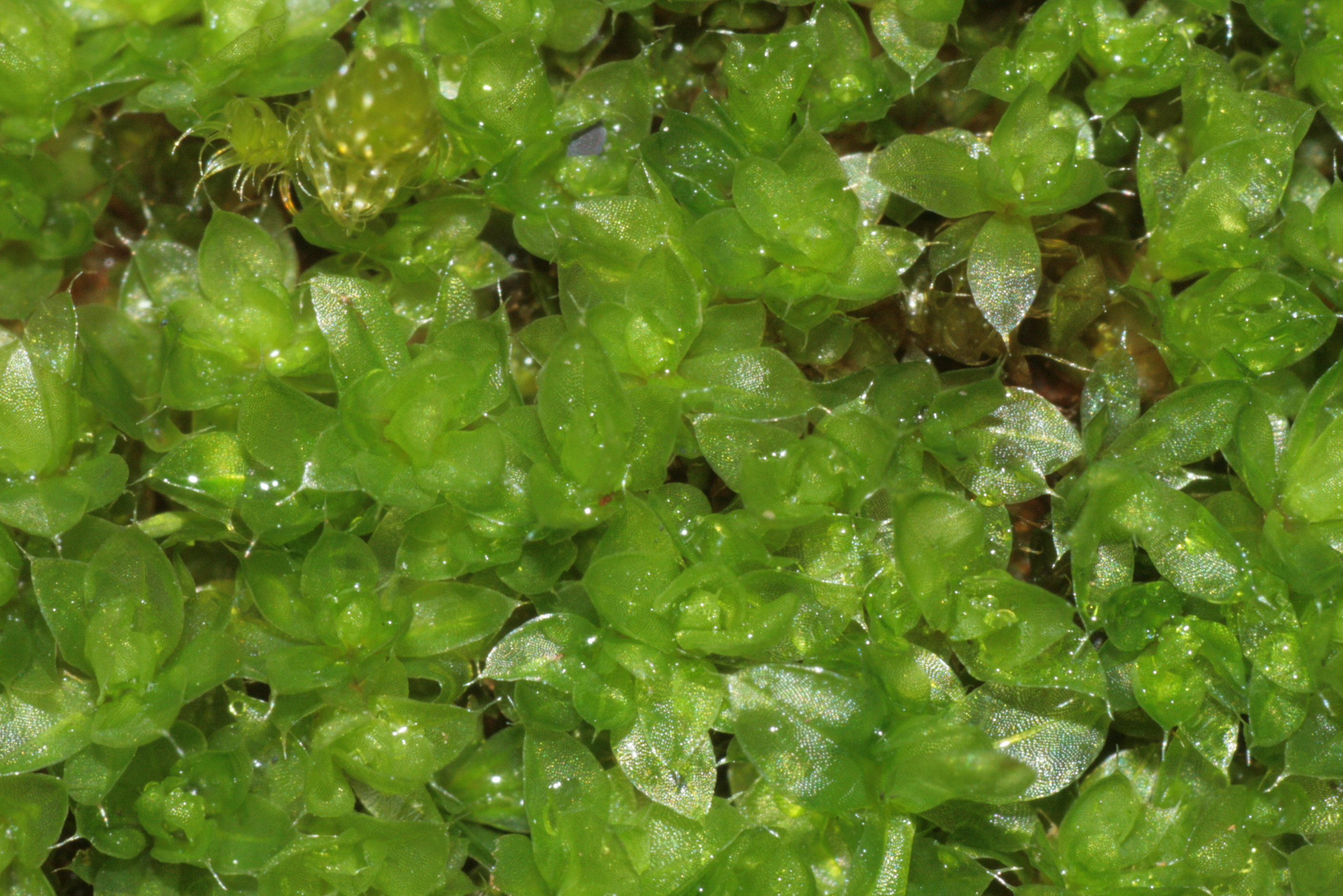 Bryum capillare